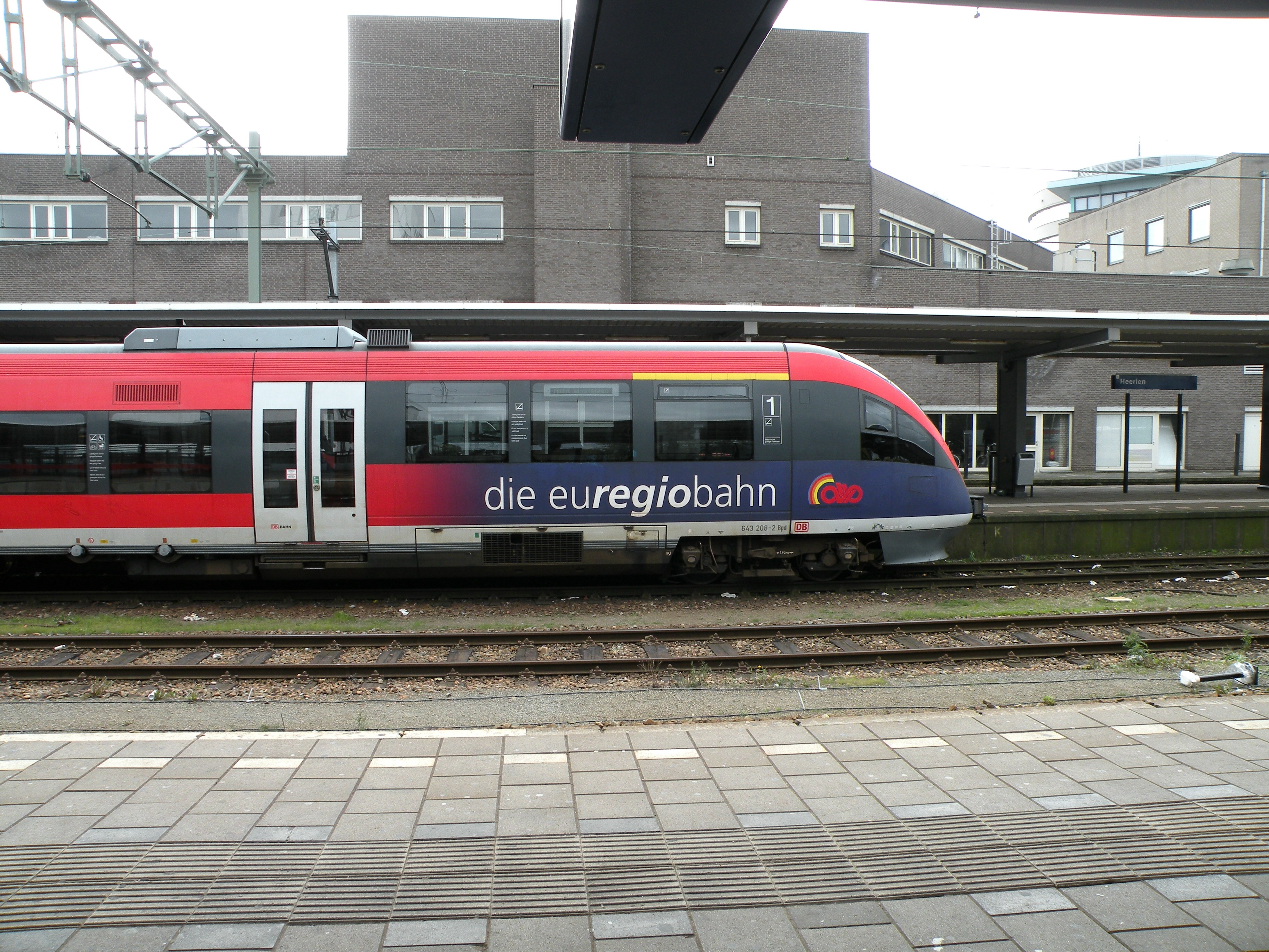 Bombardier Talent class 643.2 from the Euregiobahn on the railway line Sittard–Herzogenrath at the station of Heerlen at platform 2.